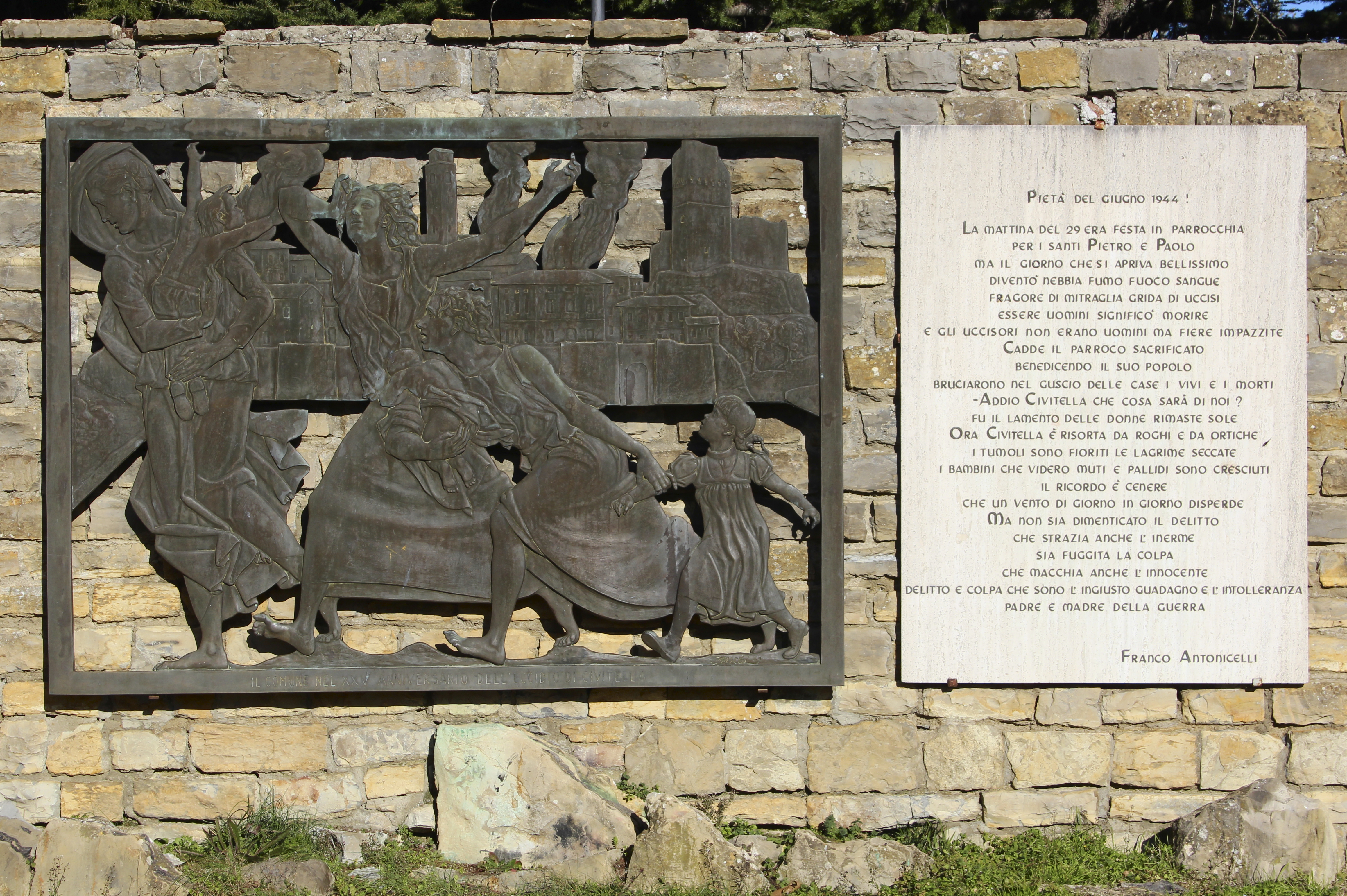 Pietà del Giugno 1944, World War II memorial in Civitella in Val di Chiana, Province of Arezzo, Tuscany, Italy